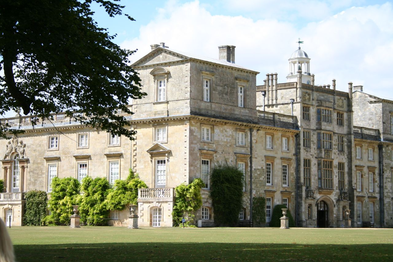 A good view of the side of the house.